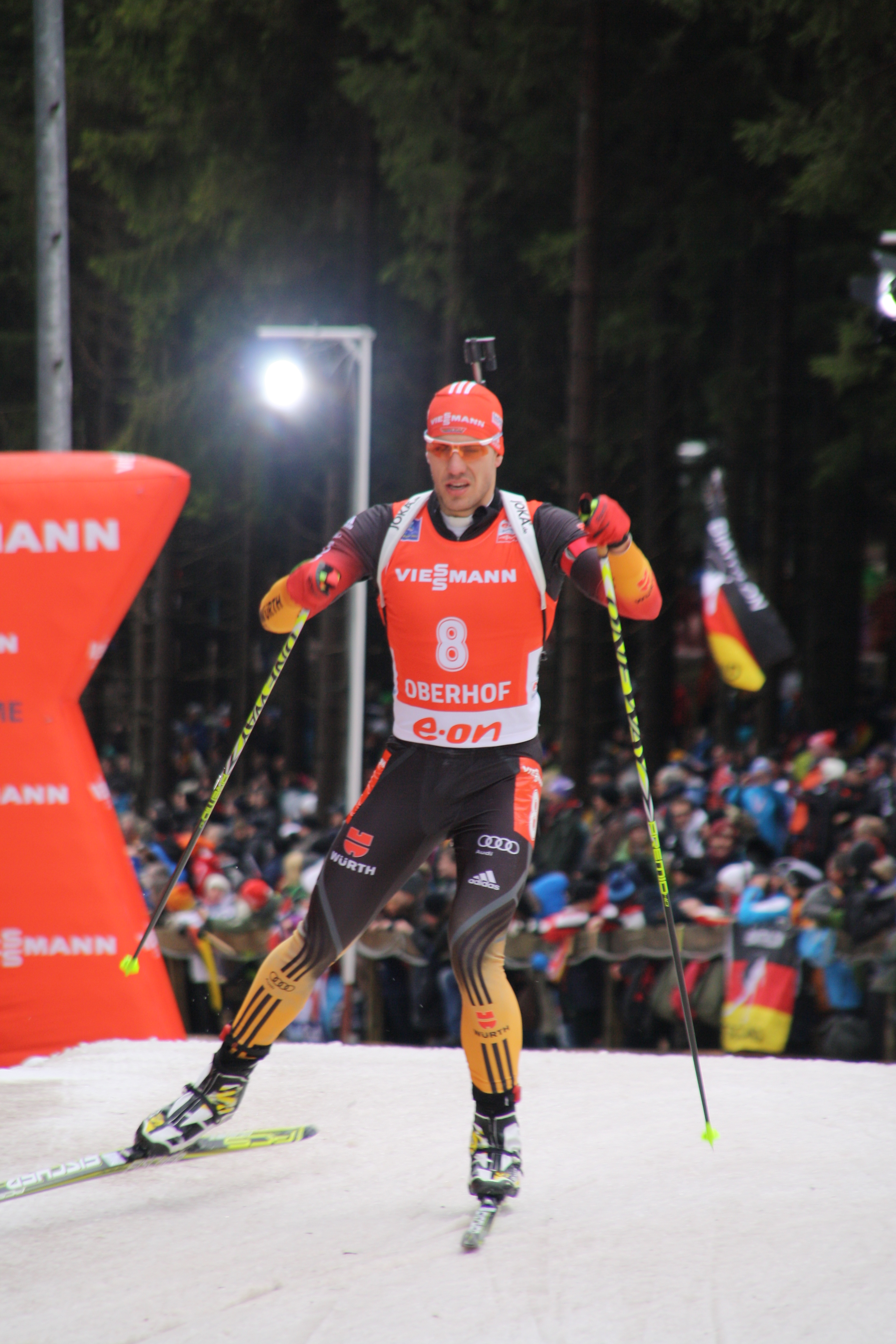 Biathlon World Cup Oberhof 2014 - Mens Pursuit